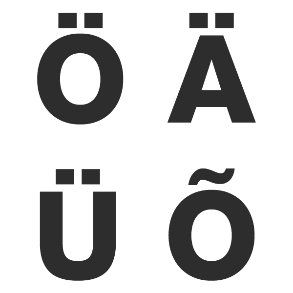 The four distinct characters in the Estonian alphabet.